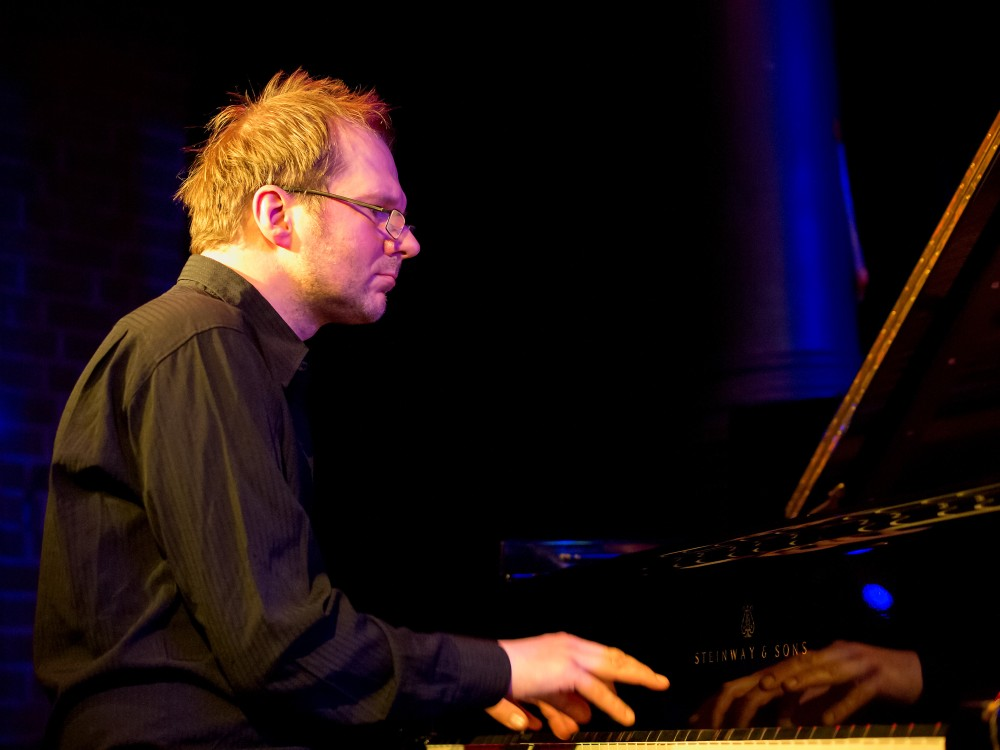 Achim Kaufmann, Jazz pianist; Picture taken in Jazz Club Unterfahrt, Munich/Bavaria